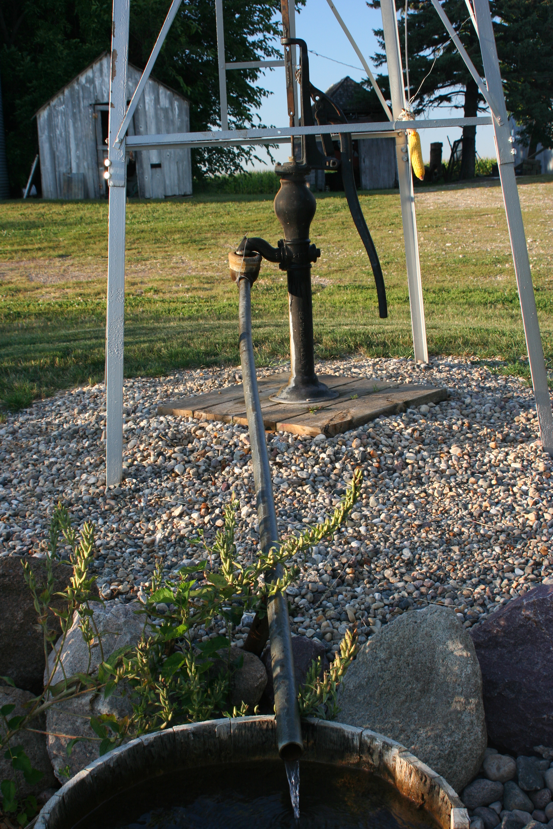 A hand type water pump located underneath and powered by a windmill in Iowa.